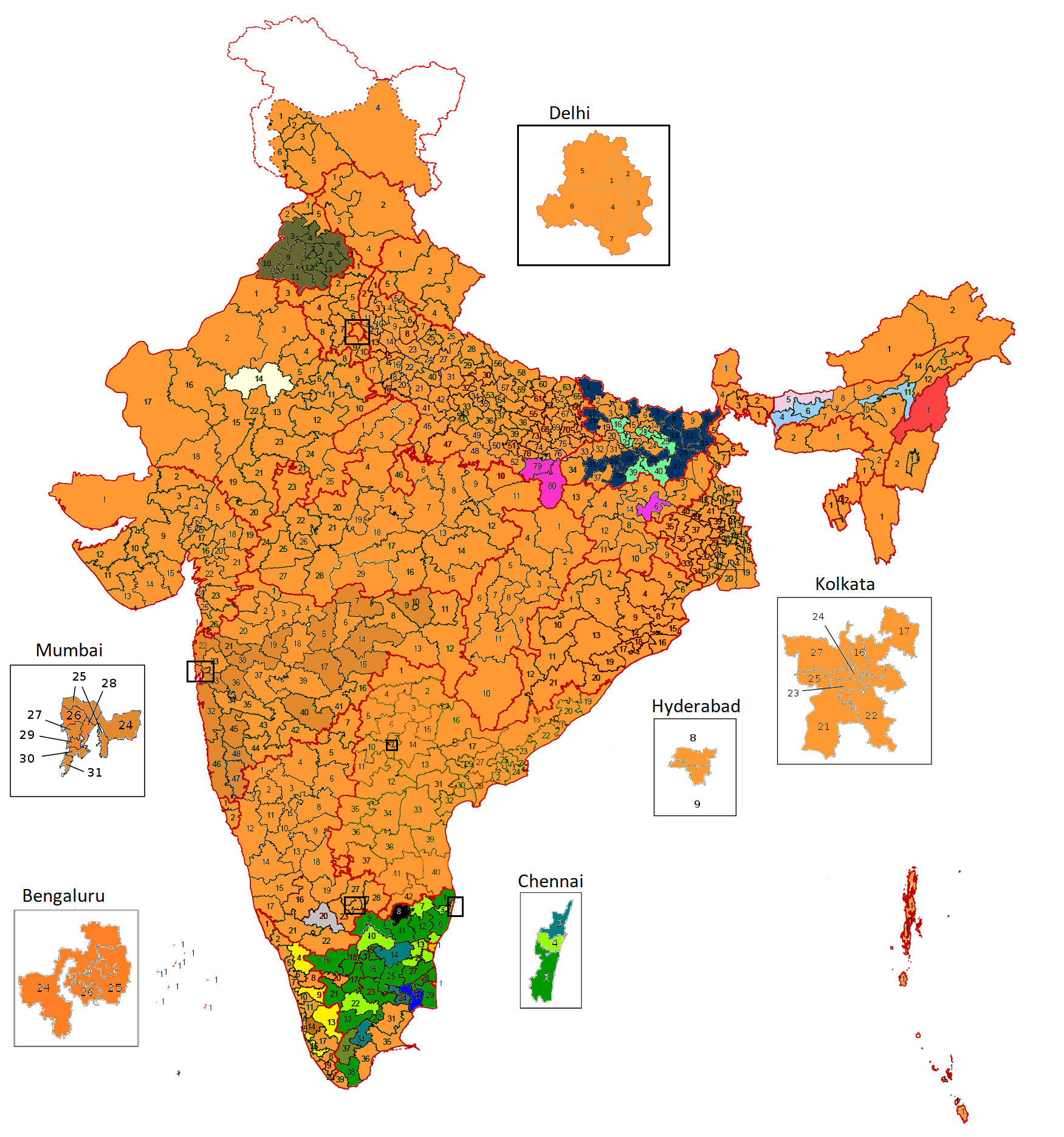 Seat Sharing of NDA in 2019 General Elections